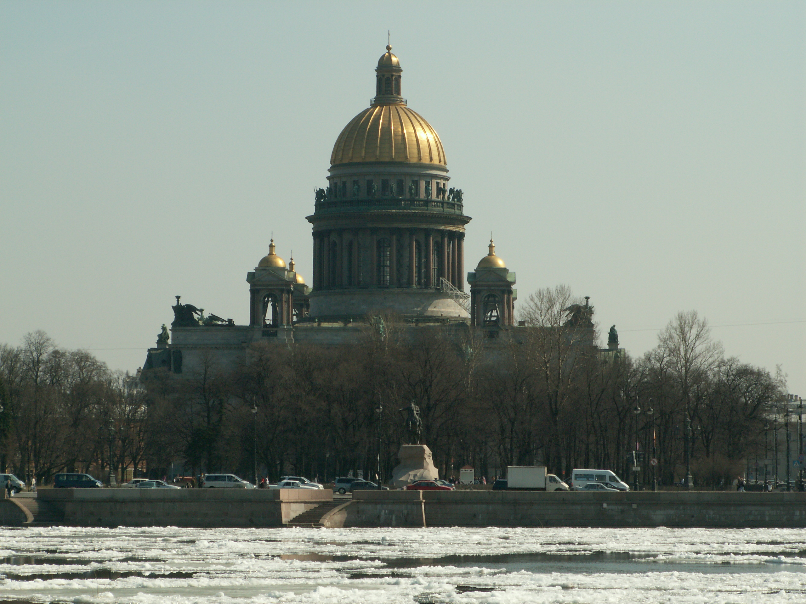 St. Isaac cathedral in St.Petersburg (Russia), view from Universitetskaya embankment